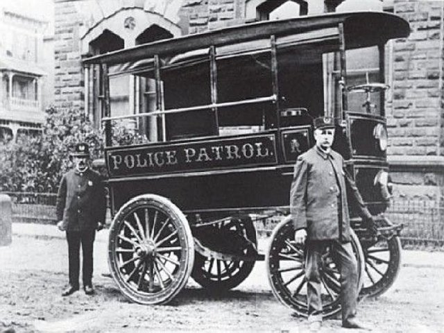 Frank F Loomis with paddy wagon in Akron, Ohio